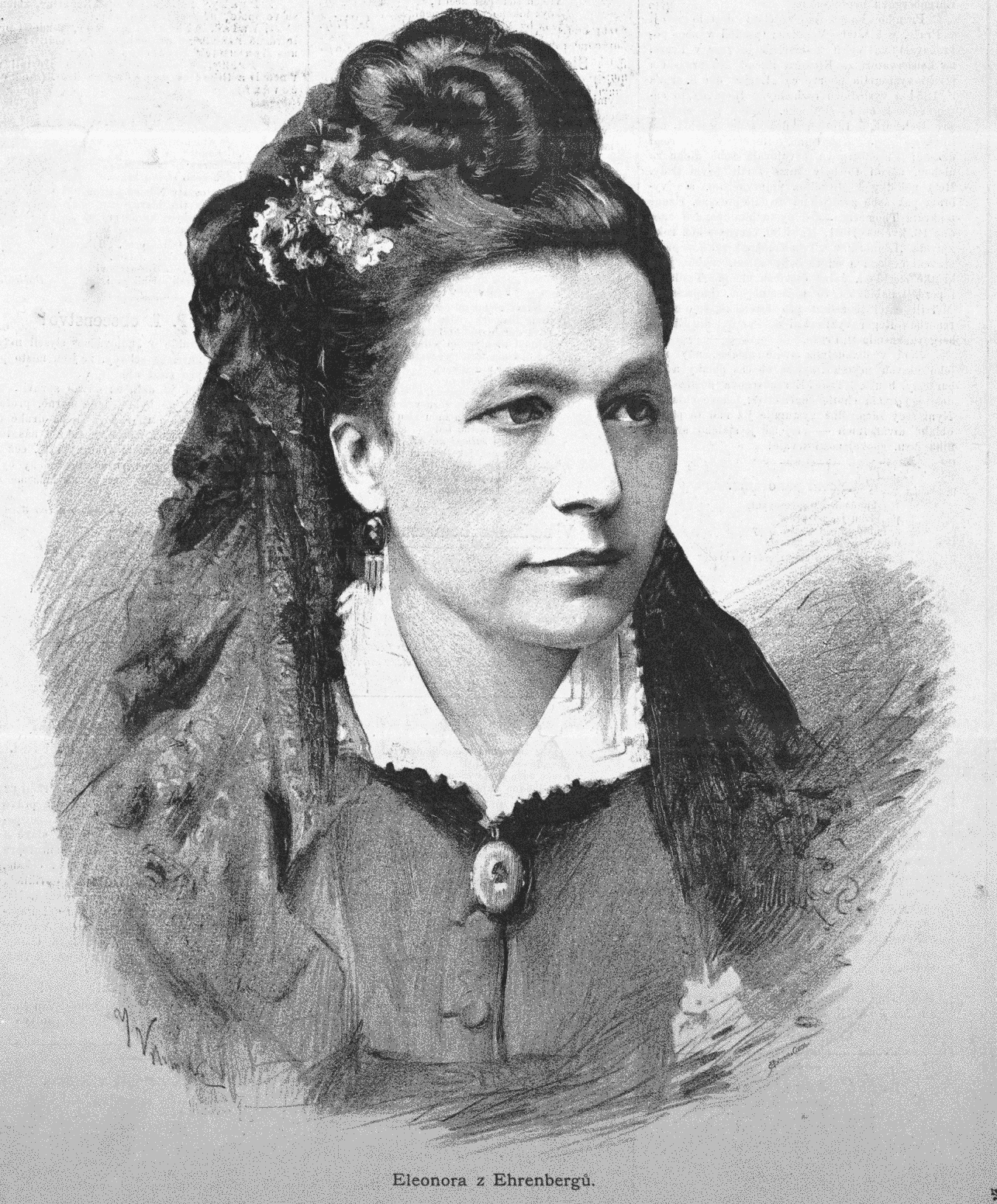 Eleanora Ehrenberg (1832-1912), sopranist of the Czech national theatre